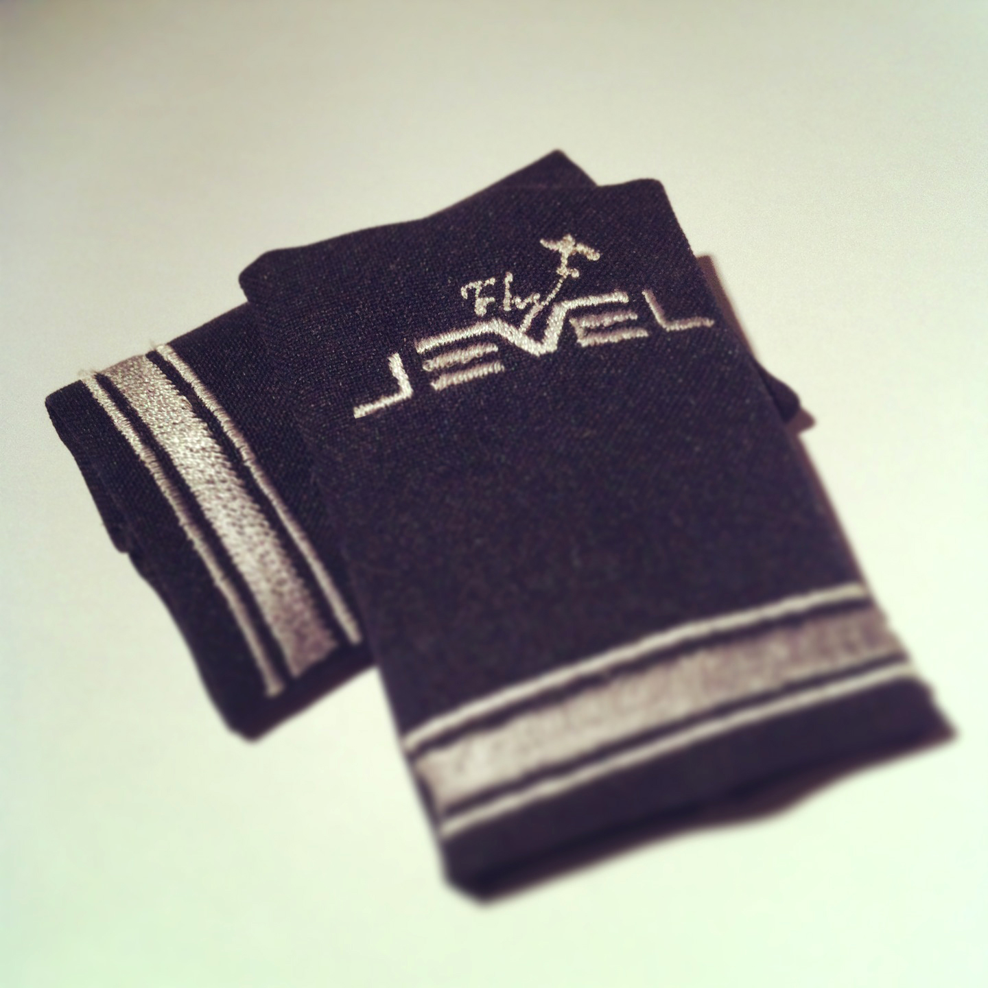 Fly Level Flight Training Organisation Student's Epaulettes